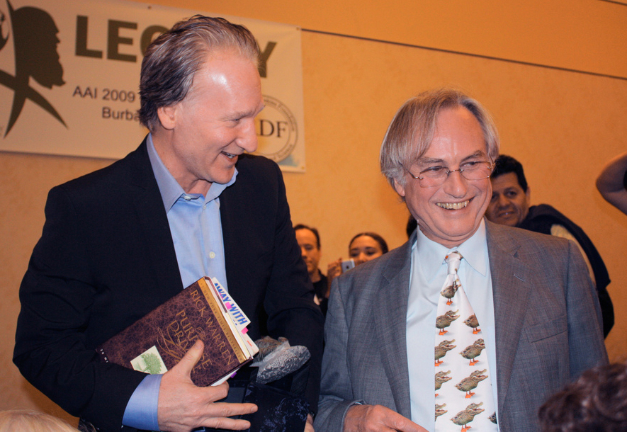 Bill Maher and Richard Dawkins after Maher's talk at the Atheist Alliance International conference in Burbank, CA.